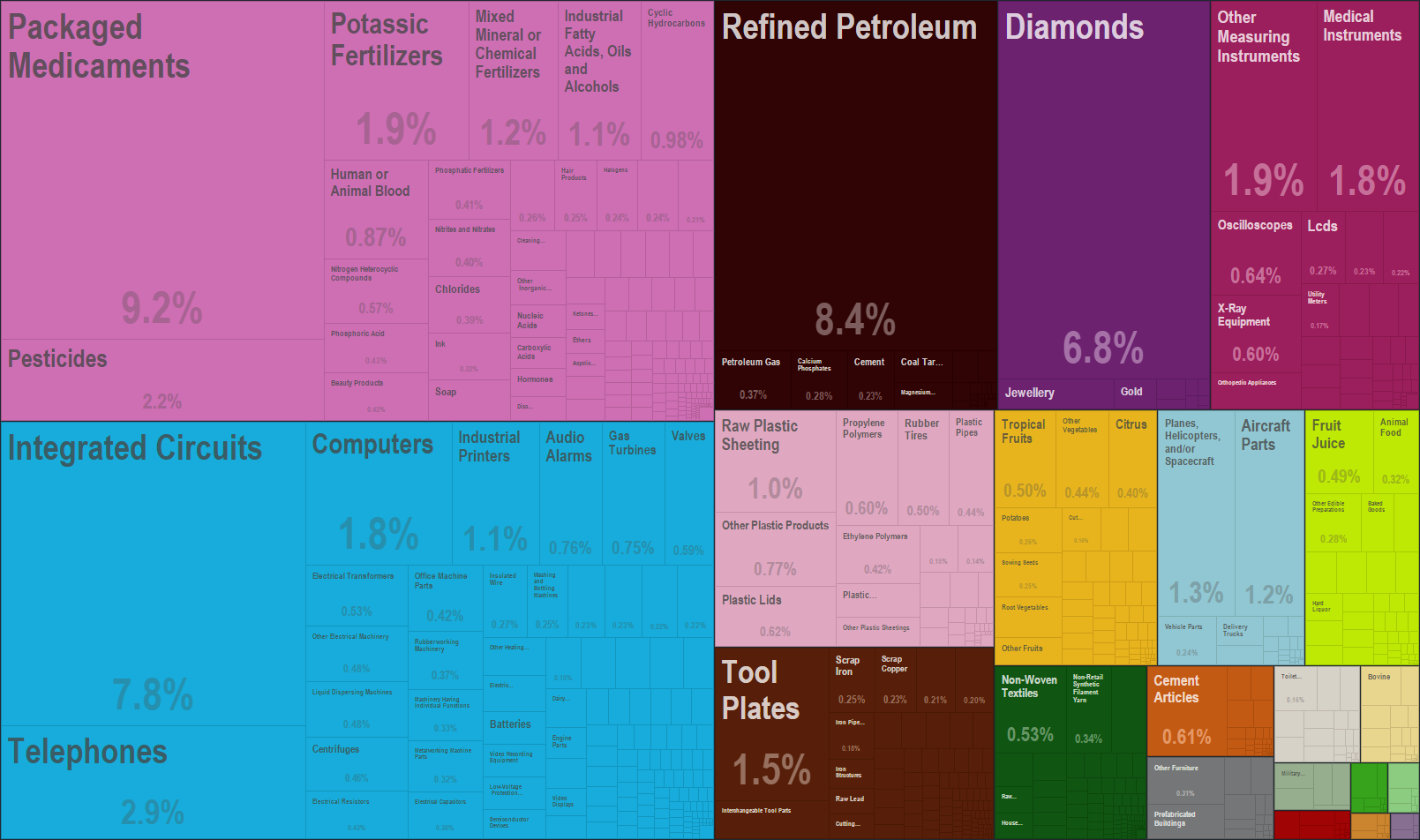 A treemap of Israeli exports in 2014.